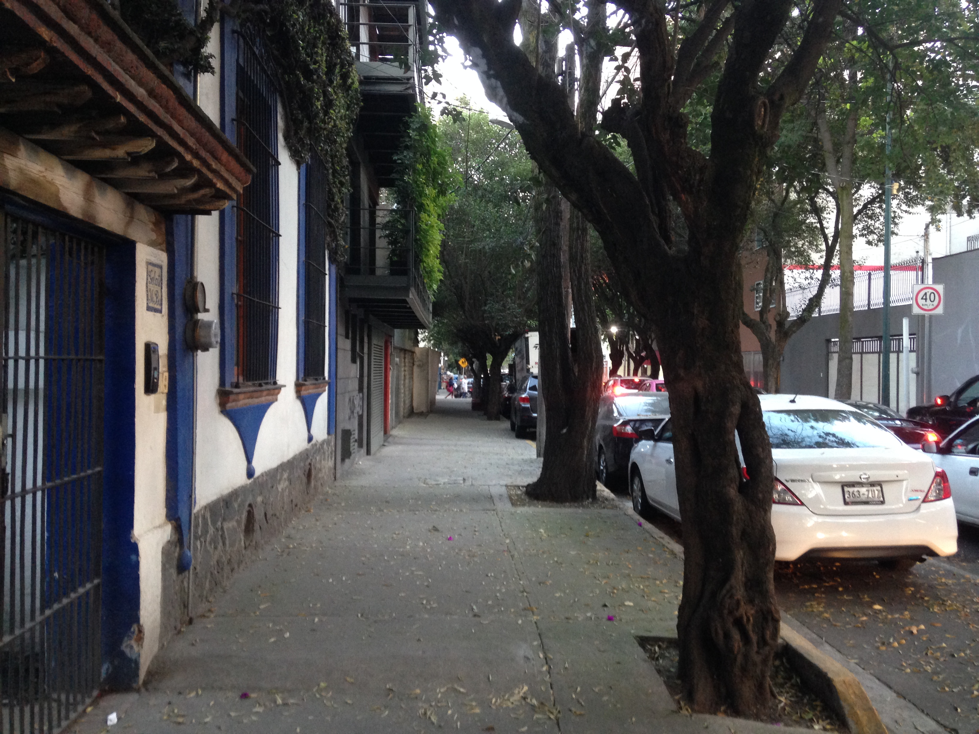 San Miguel Chapultepec neighbourhood in west Mexico City, 2016